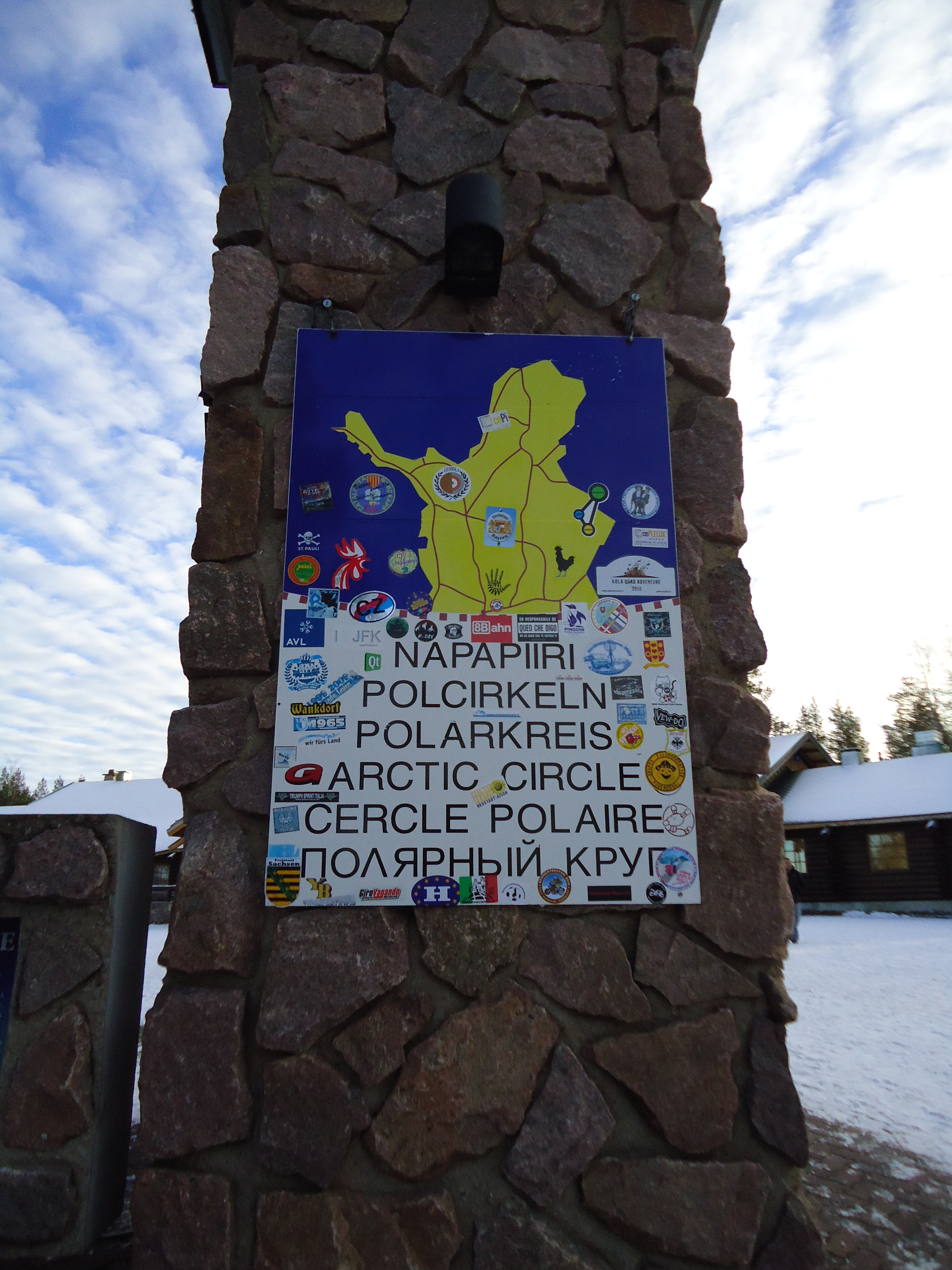 A sign at the polar circle in Santa Claus Village in Rovaniemi, Finland